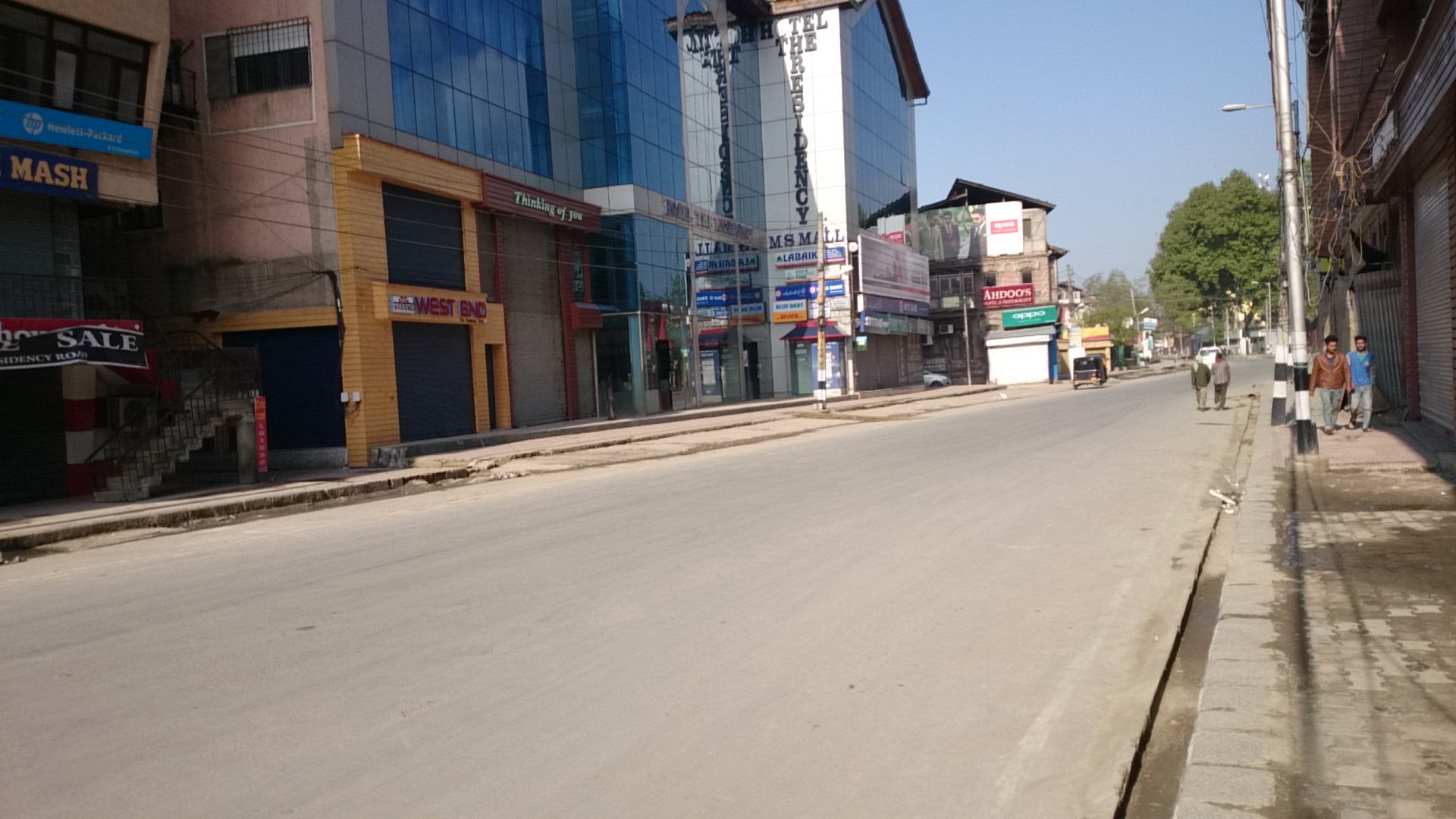 The morning view of Hotel Residency.